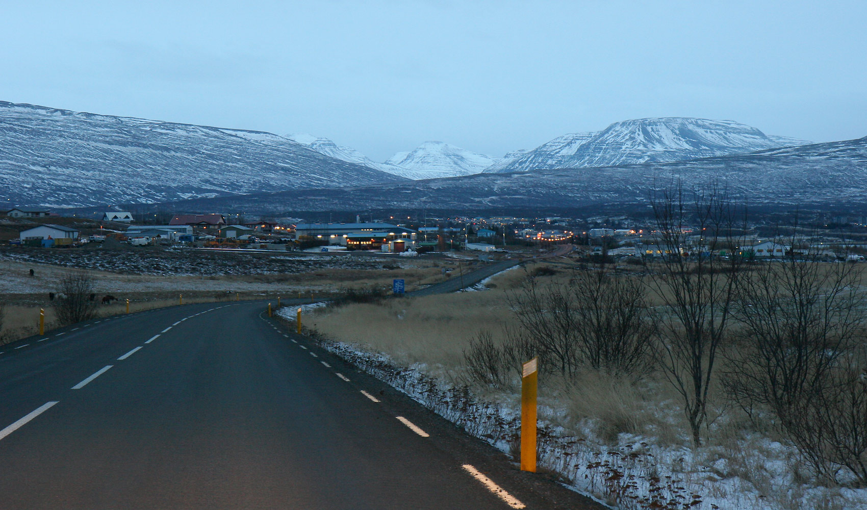 Ringroad heading southeast through Fellabær and Egilsstaðir, November 23 10:40 Iceland, November 2007 Photo by me user:debivort (or friend, with permission given to freely license photo).